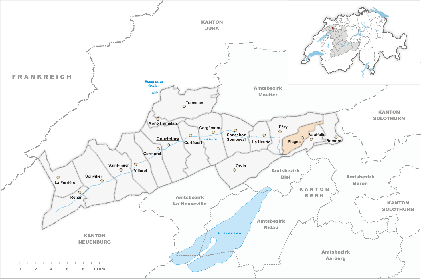 Municipality Plagne